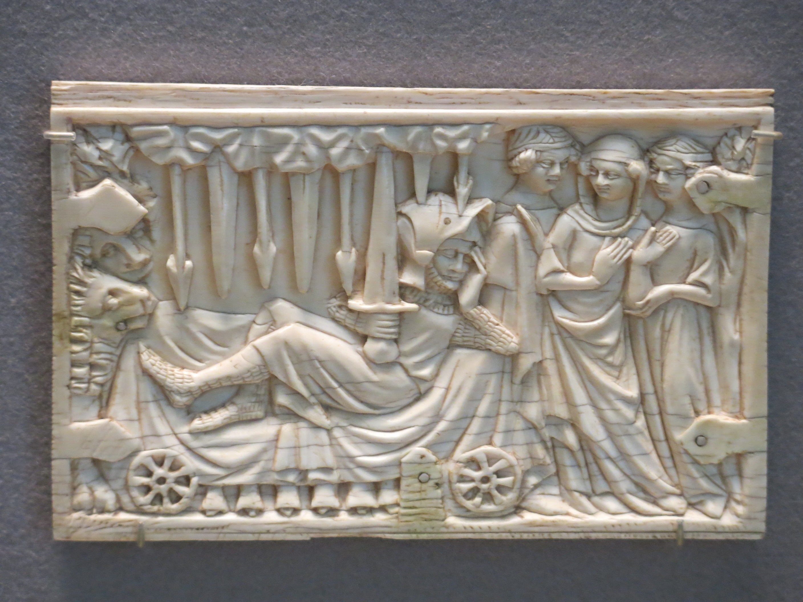 Panel of box : Gowain and the dangerous bed (scene of the nove Perceval by Chrétien de Troyes). Paris circa 1340-1350. Elephant ivory. Purchase 2013. Louvre museum (Paris, France).